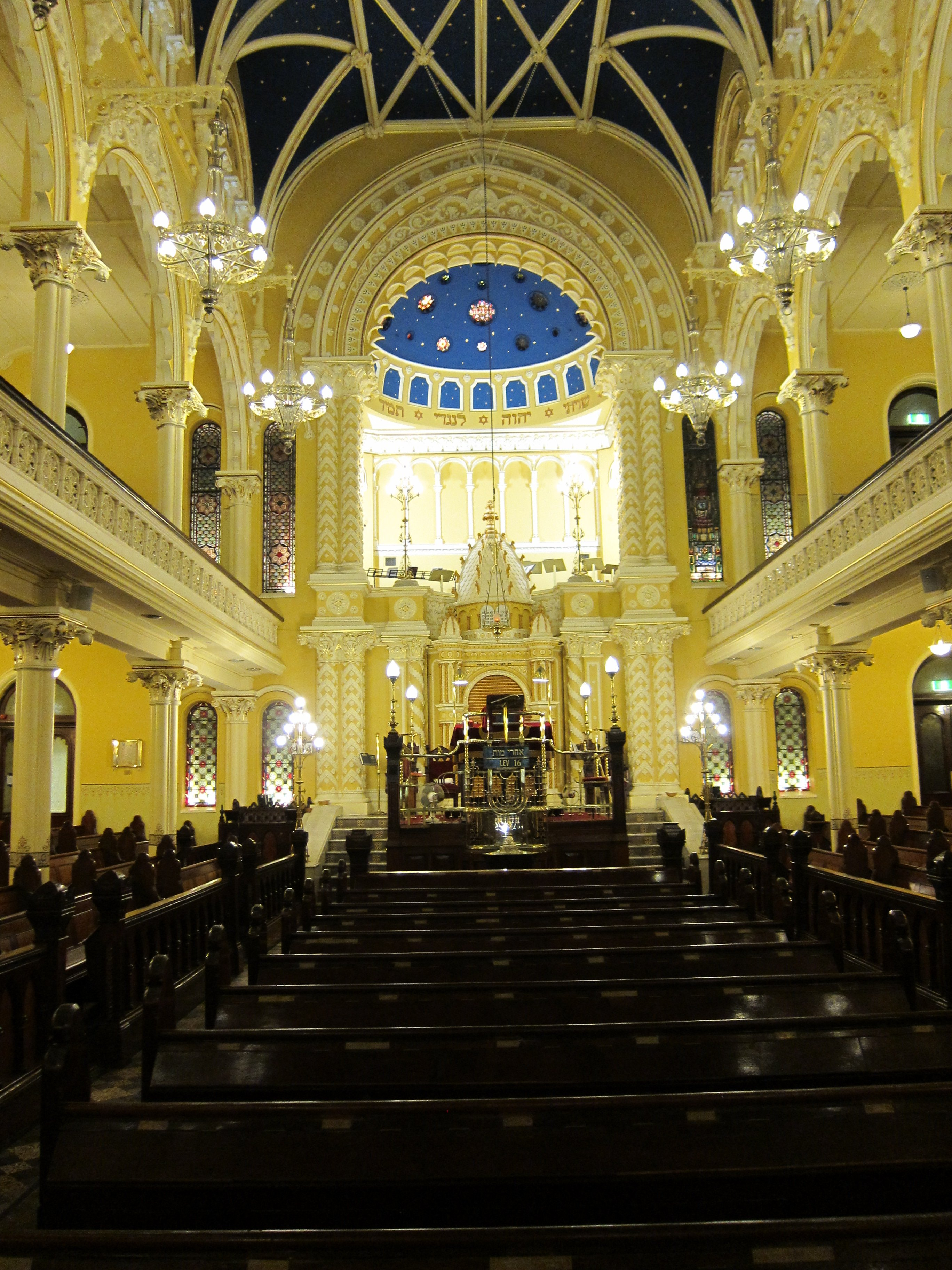 Main sanctuary of The Great Synagogue in Sydney, Australia